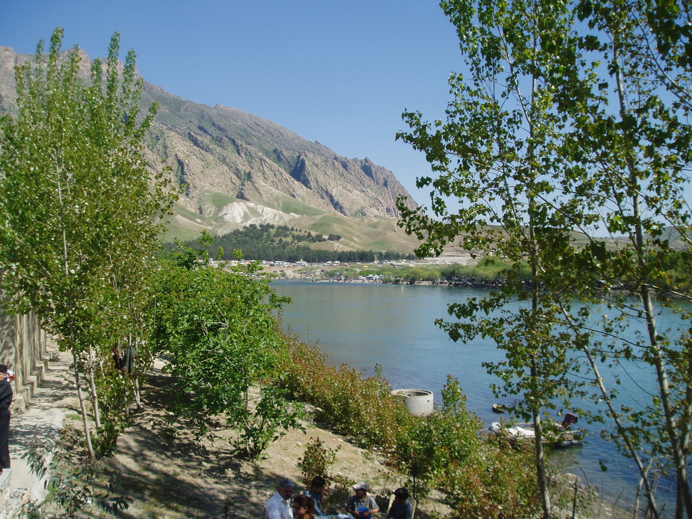 Lake Dokan or Dukan near Sulaimaniya, Irak